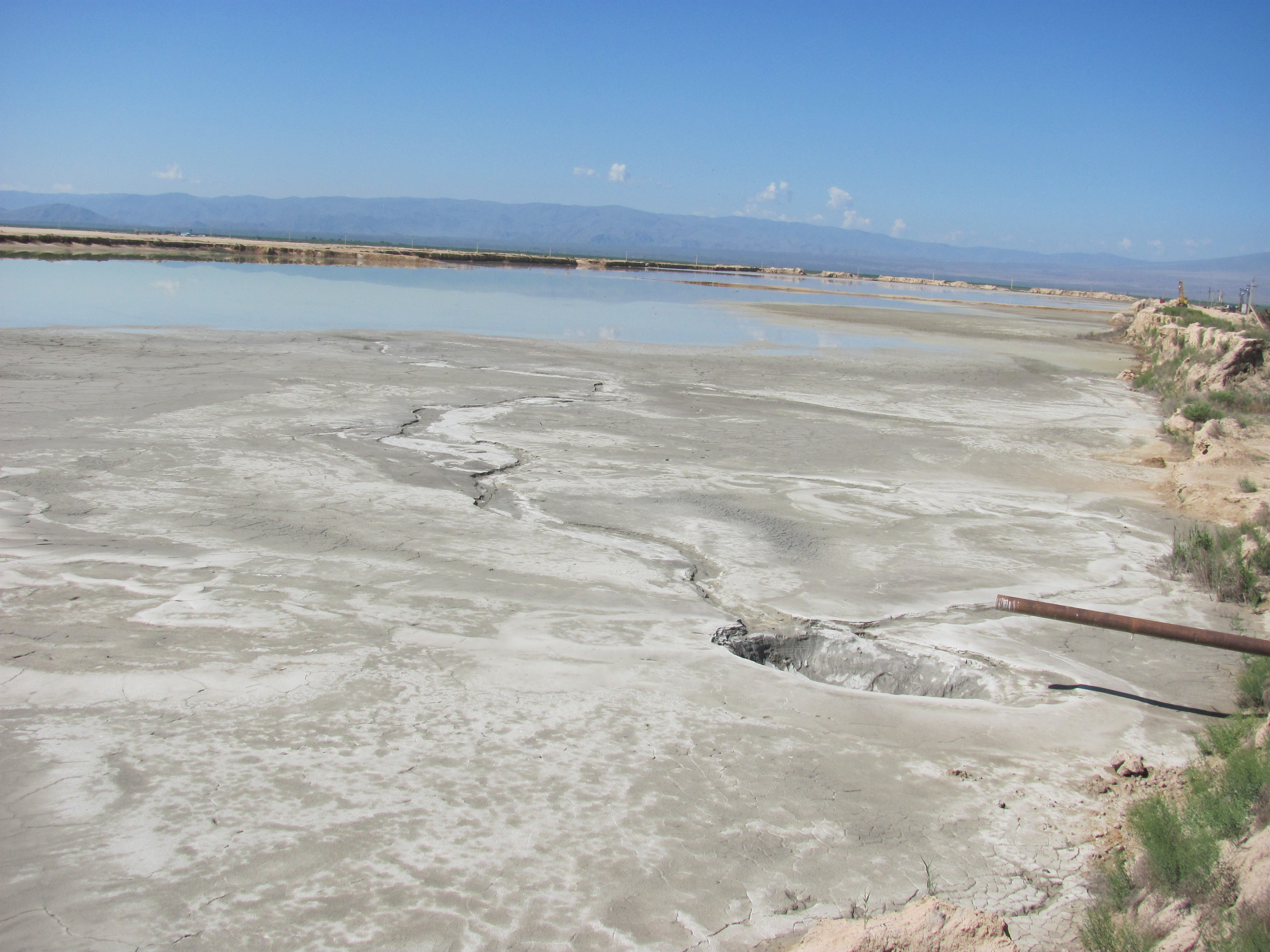 General view of the tailings dump of the Ararat gold processing plant in the town of Ararat in Armenia.